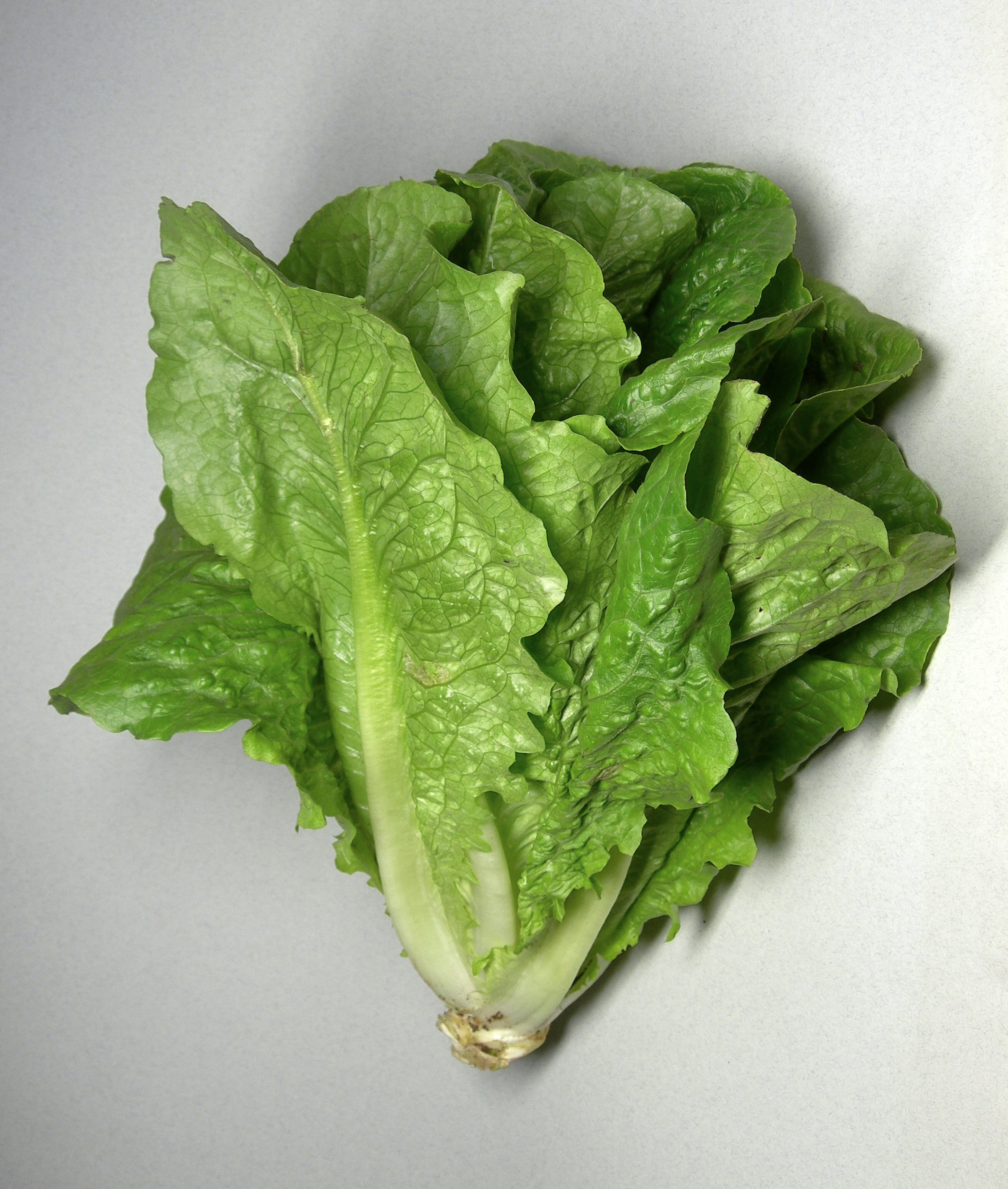 Romaine lettuce (Lactuca sativa var. longifolia).